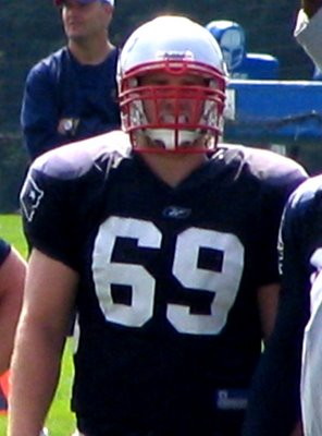 Former New England Patriots defensive tackle, Zack West at the Patriots 2007 Training Camp